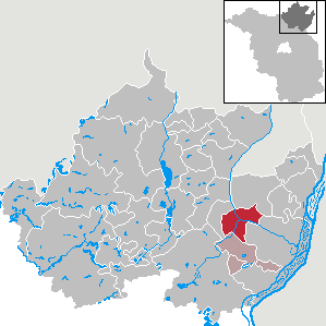 Passow in Brandenburg (Country) - District Uckermark